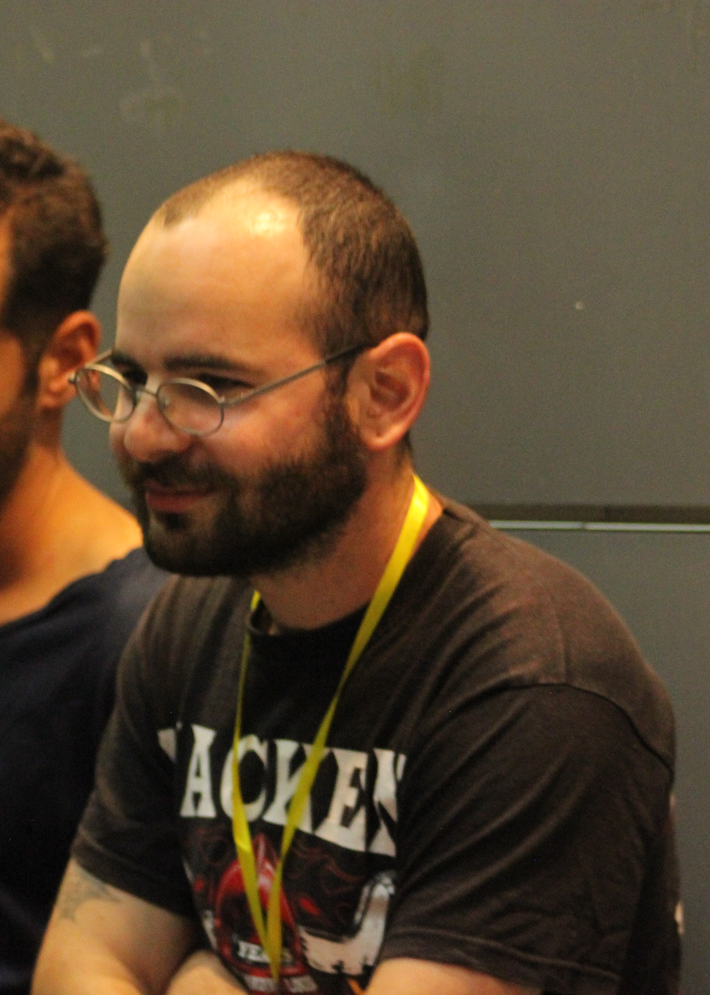 Shot on May 26, 2019